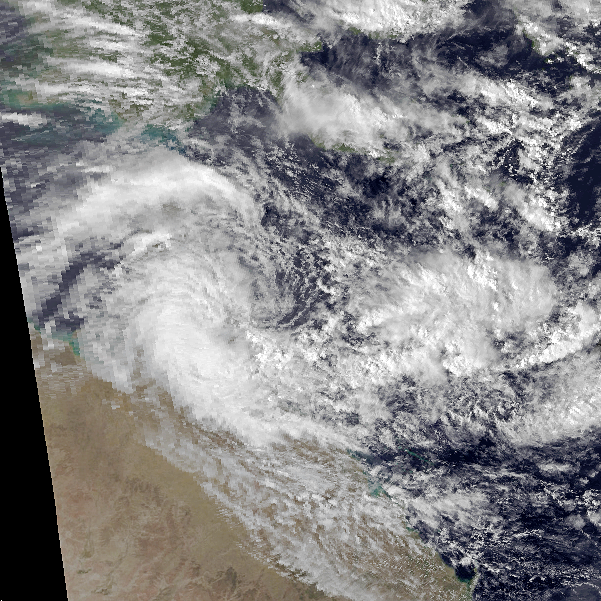 Tropical Storm Peter on January 3, 1979. At the time Peter had winds of 35 knts (40 mph, 65 kph), 1-min sustained and a pressure of 997 mbar. This image was taken by the NOAA-5 Satellite.